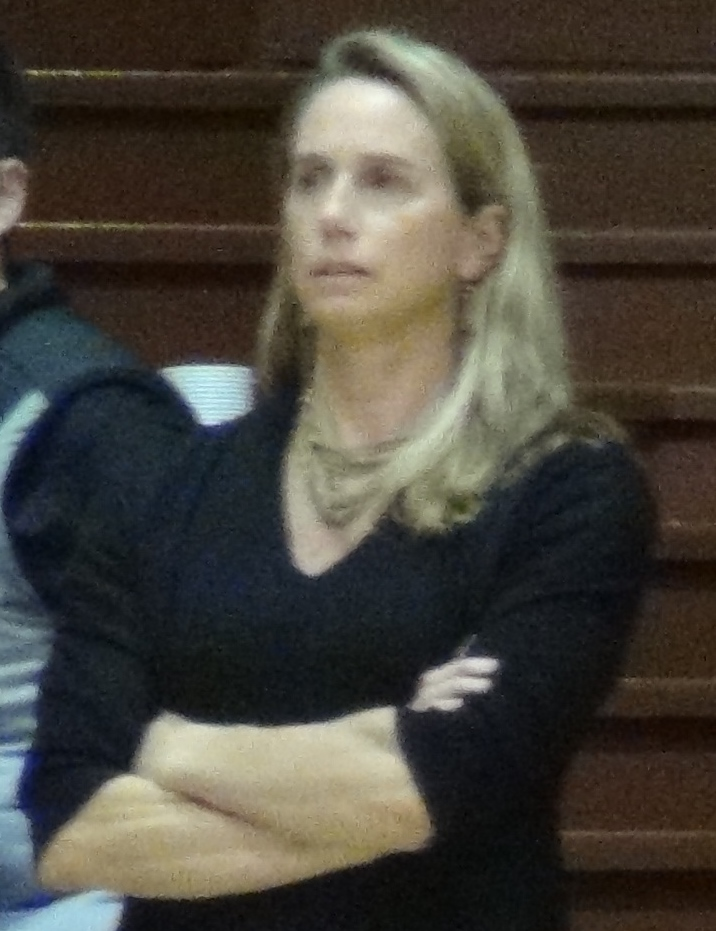 University of San Francisco women's basketball head coach Molly Goodenbour at Kezar Pavilion on Dec. 6, 2016 during San Francisco's game against San Jose State.